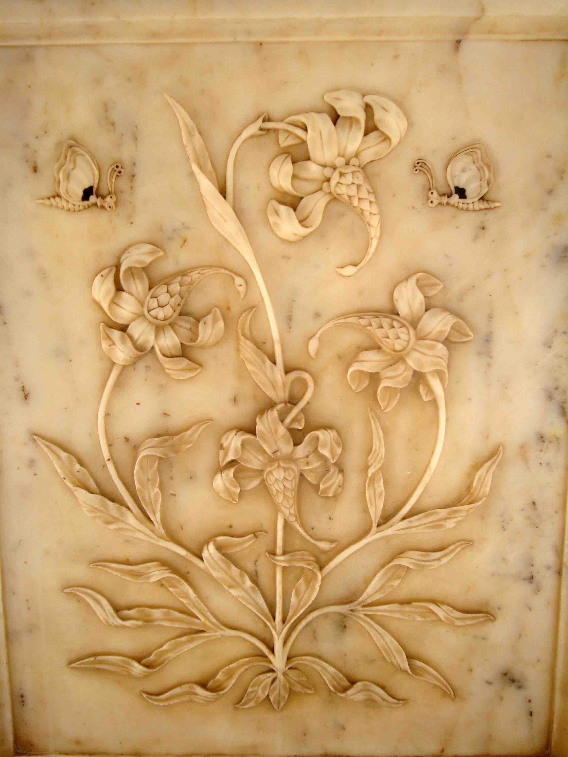 Amber Palace on Hill, Amber